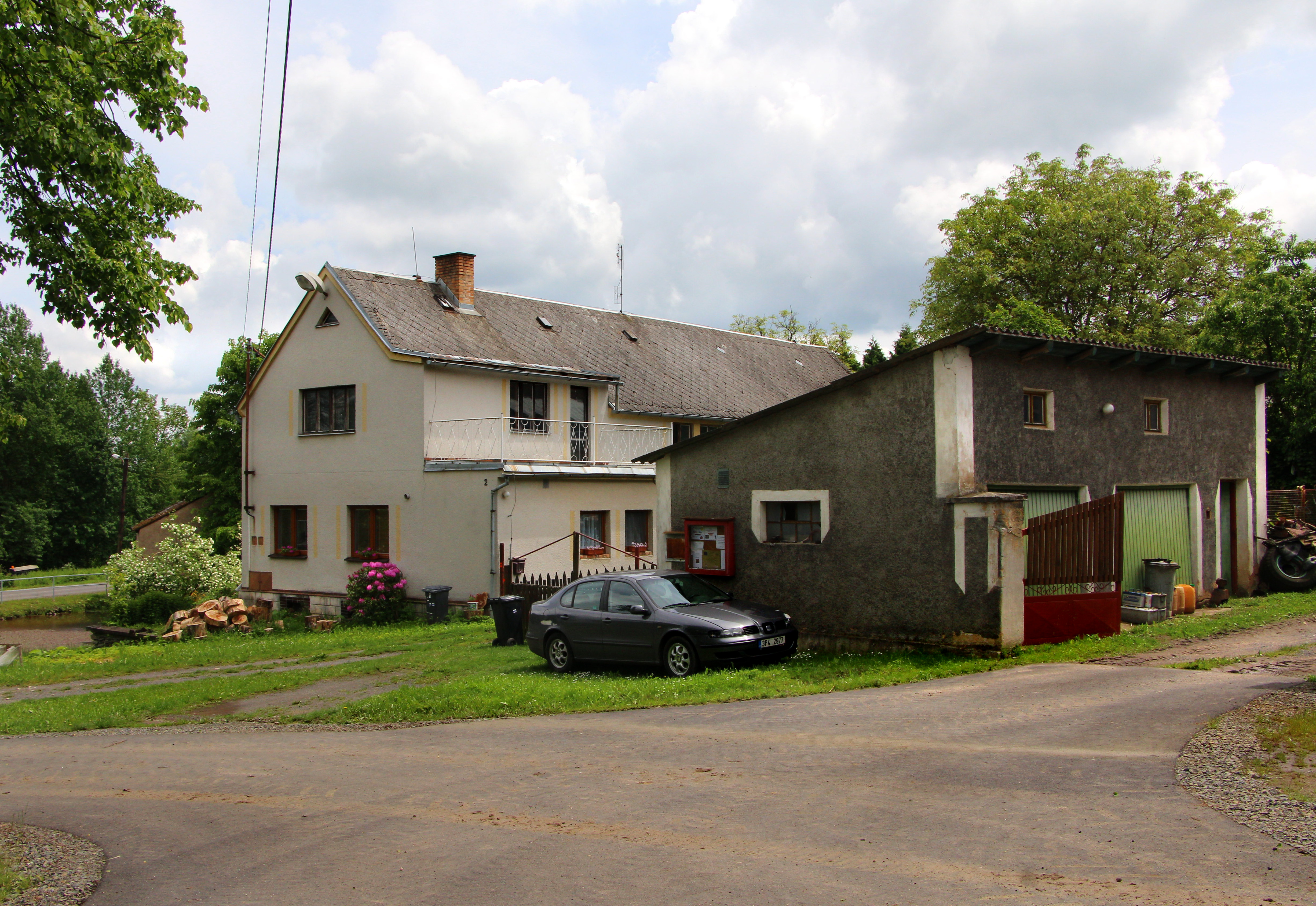 Common in Kamýk, part of Bezdružice, Czech Republic.